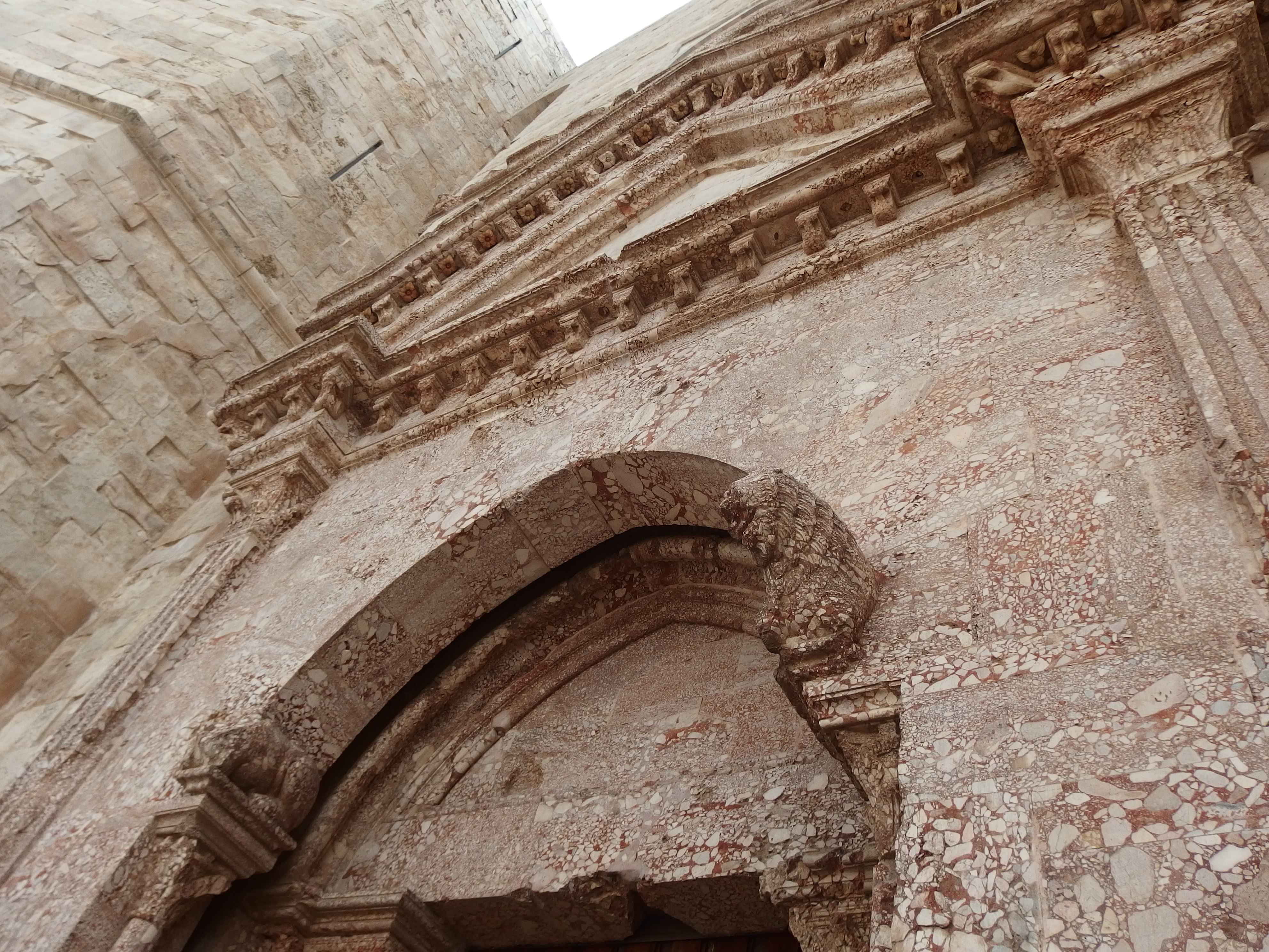 Castel del Monte, Apulia, Italy.